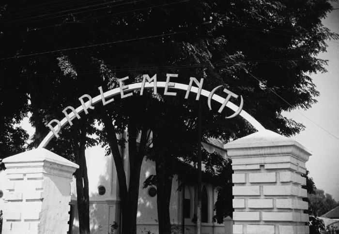 Gates of the parliament building of the federal state of East Indonesia, Makassar, Celebes.